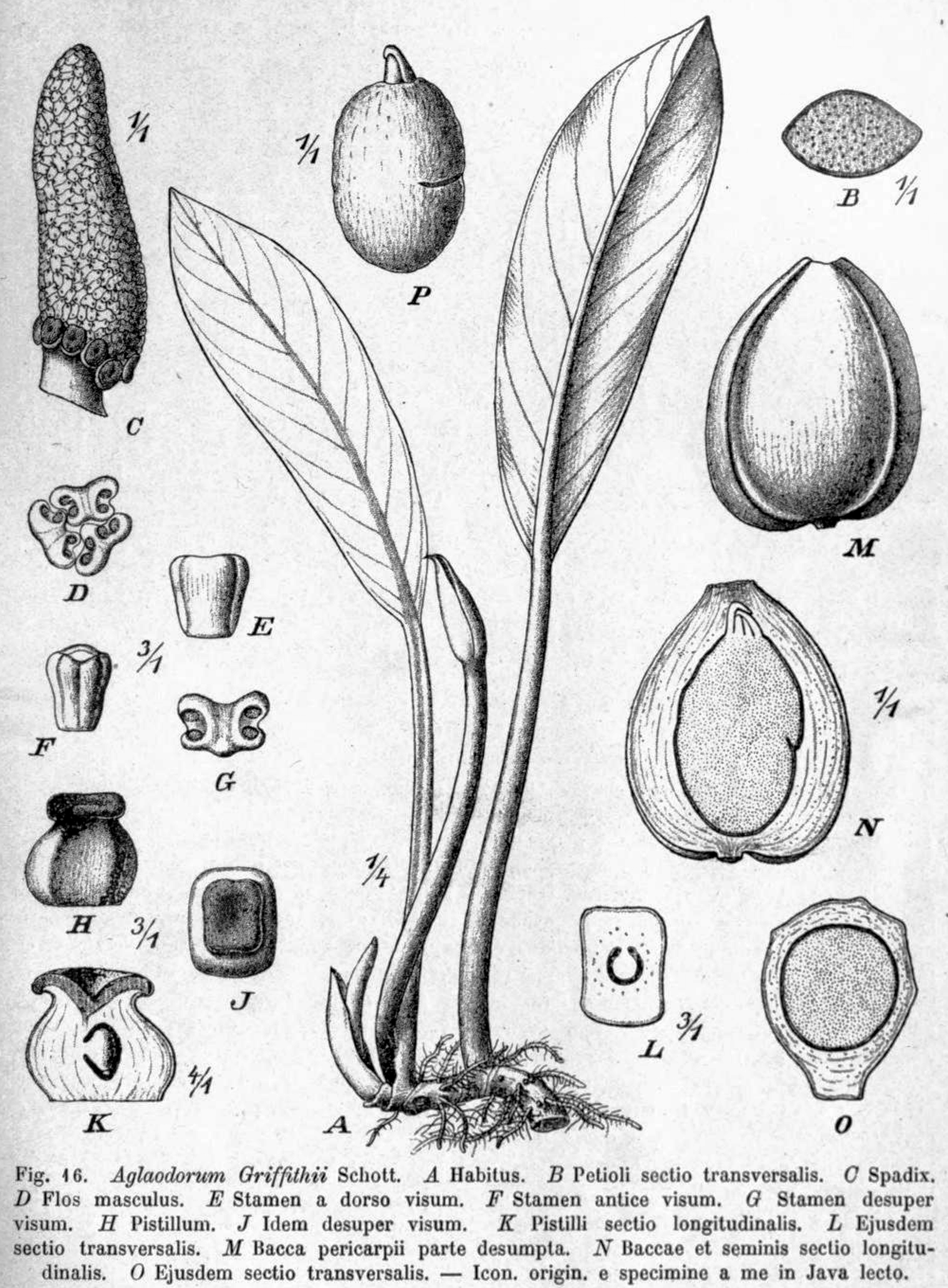 Aglaodorum griffithi from Das Pflanzenreich